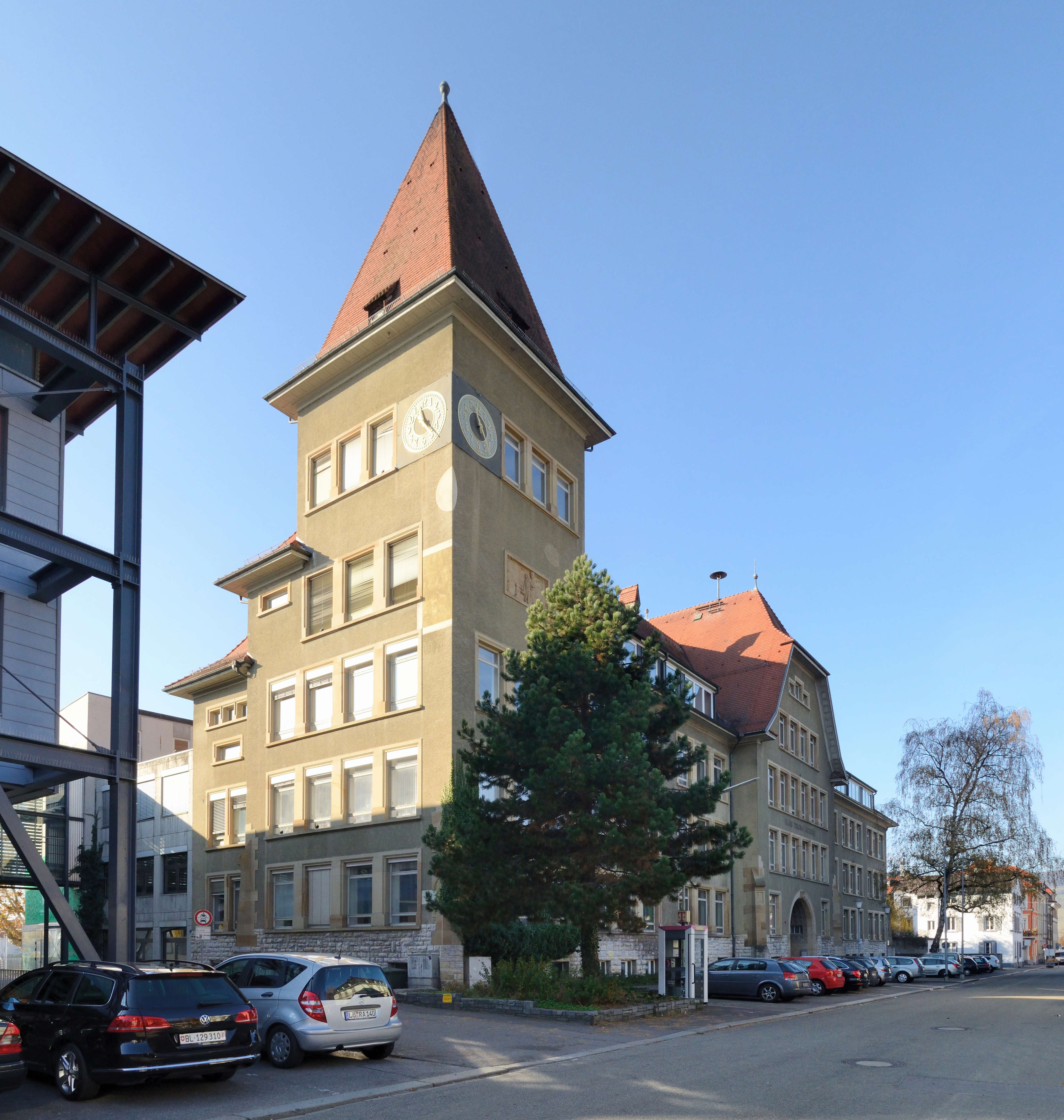 Lörrach: secondary school "Hans Thoma"